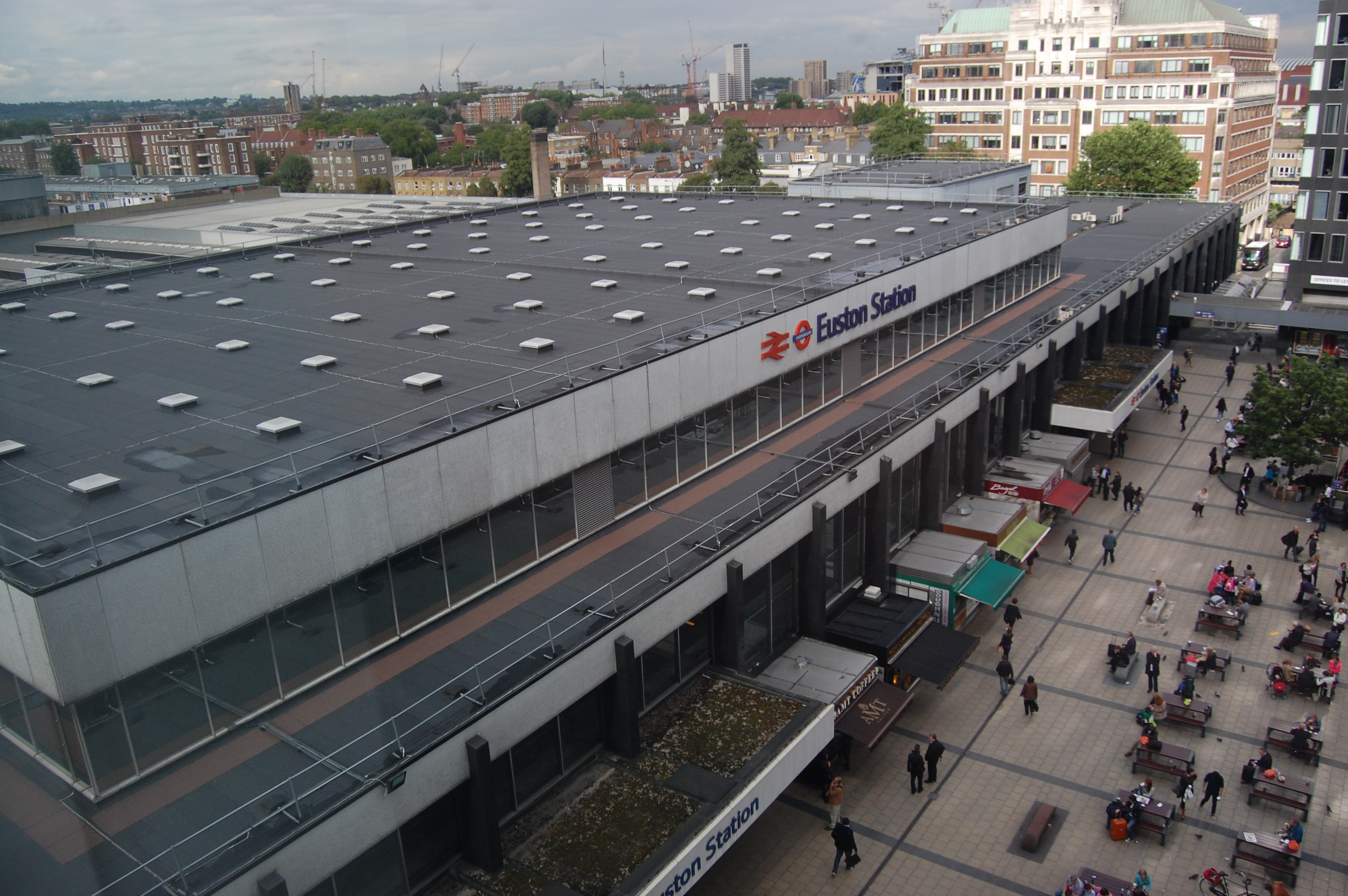 Euston railway station from the 5th floor of One Euston Square. Used ehre